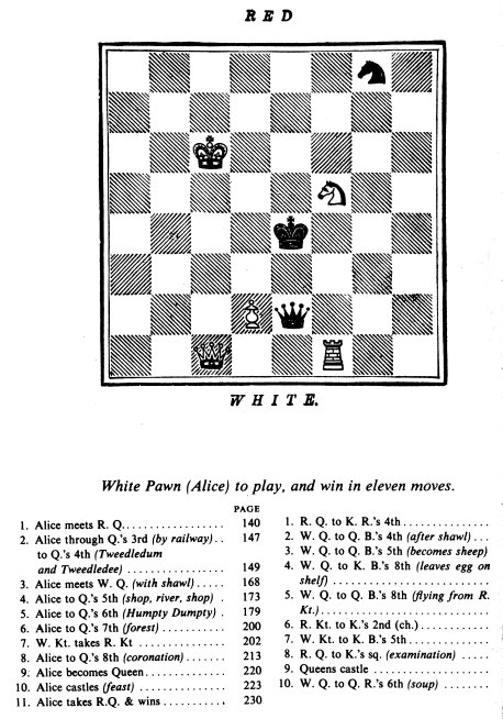 Diagram prefacing Through the Looking-Glass by Lewis Carroll